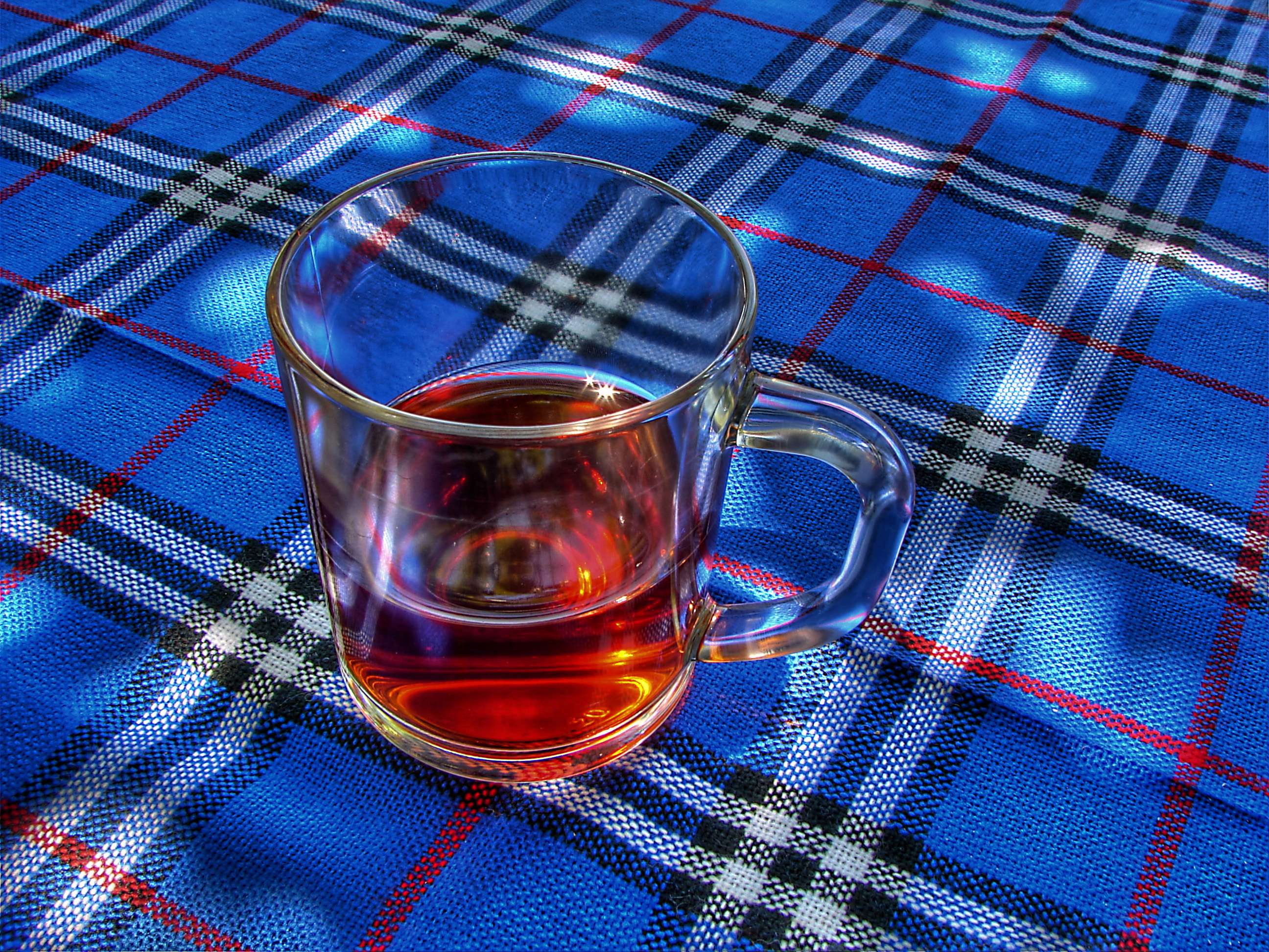 A Glass of Tea.